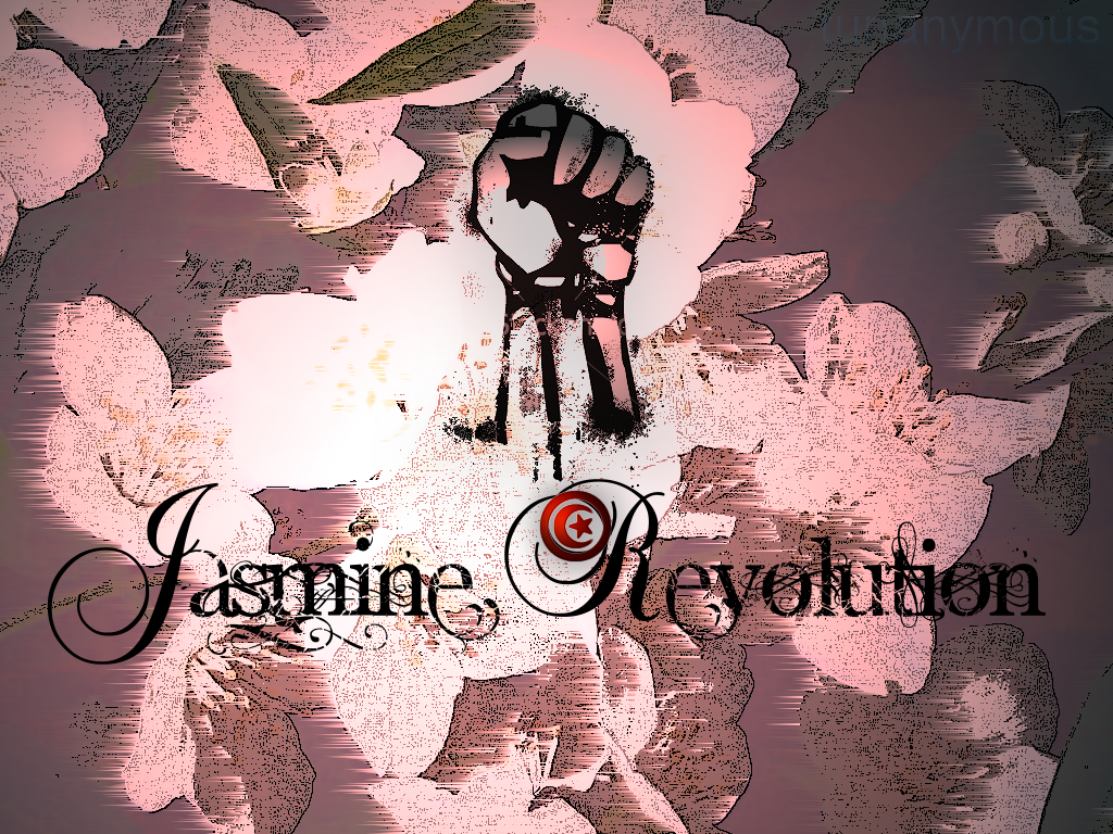 The Jasmine Revolution